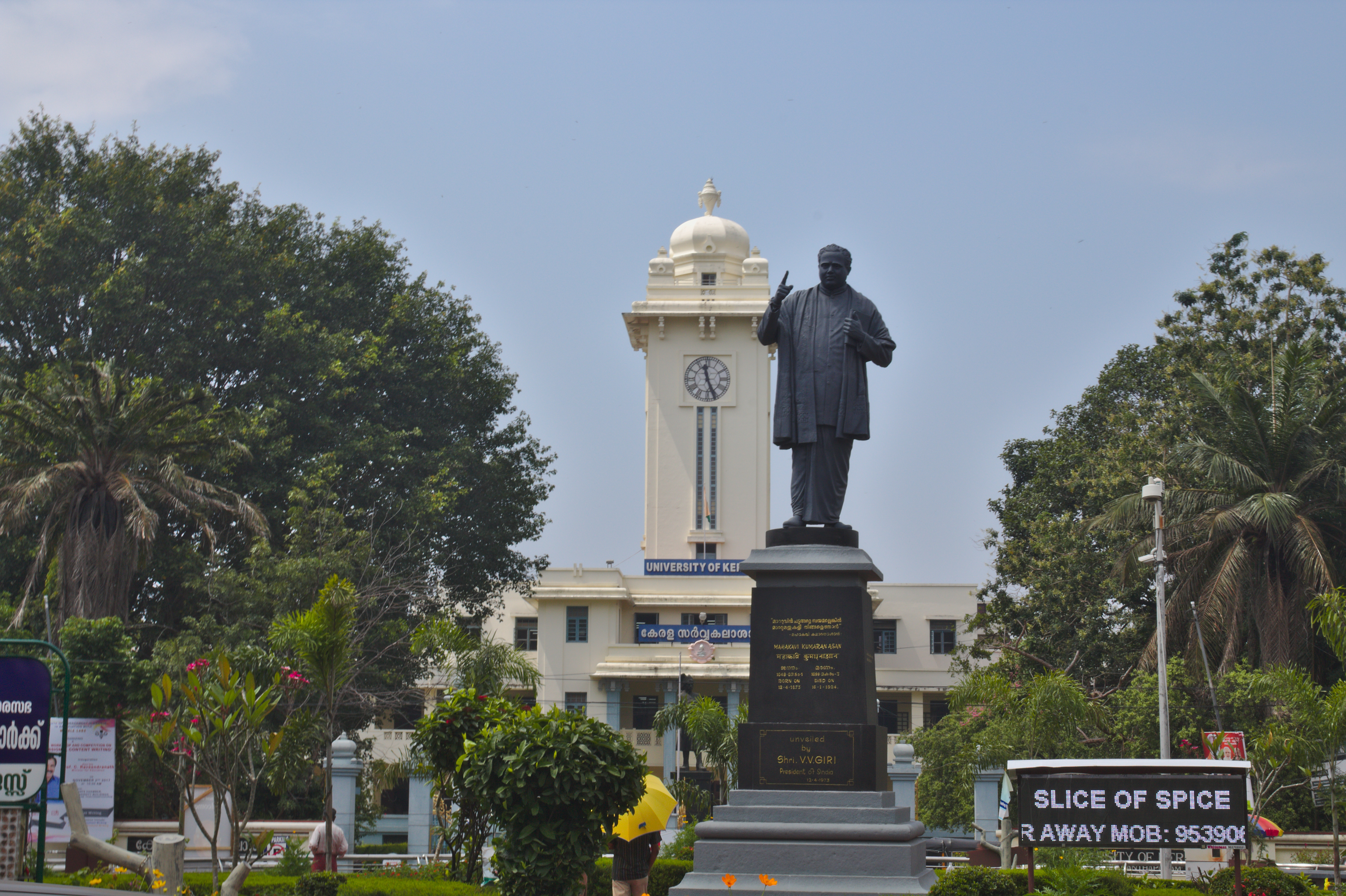 Statue of Malayalam poet Kumaran Asan in front of Kerala University